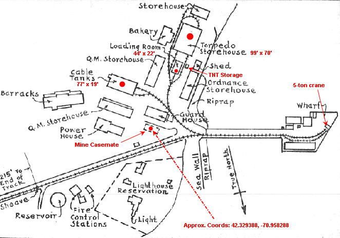 This plan of the mine-handling facilities at Fort Strong comes from the U.S. Army Engineers' Reports of Completed Works (RCWs) for Fort Strong, Long Island, Boston Harbor, and is indicated as being updated through October, 1921. The notes in red have been added for use on Wikipedia, with building dimensions obtained from other RCWs. The coordinates of the center of the mine casemate were observed from Google Maps and are included to index the location of the map.